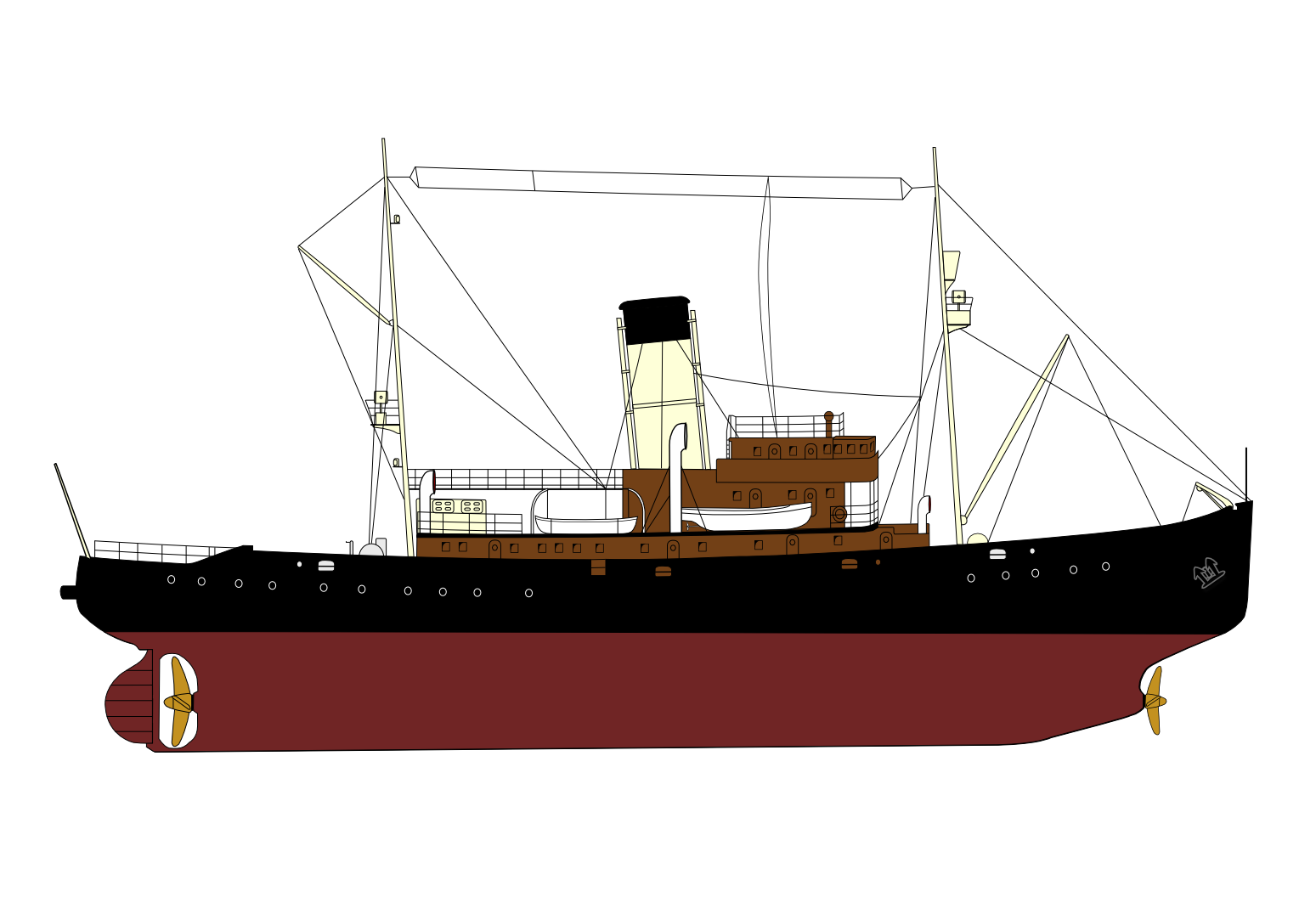 Swedish ice breaker Atle, launched in 1925.